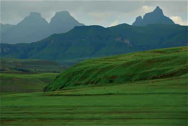 Cathedral Valley in the Ukhahlamba Drakensburg, South Africa.